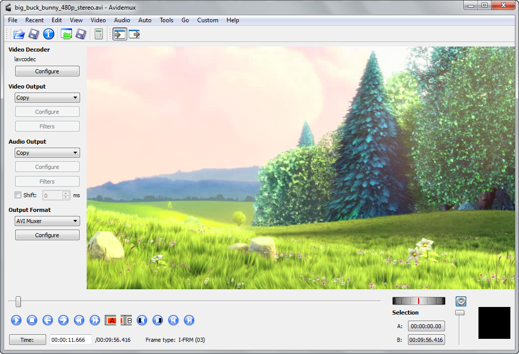 Screenshot of Avidemux 2.6.1 running on Windows 7, displaying a scene from Big Buck Bunny